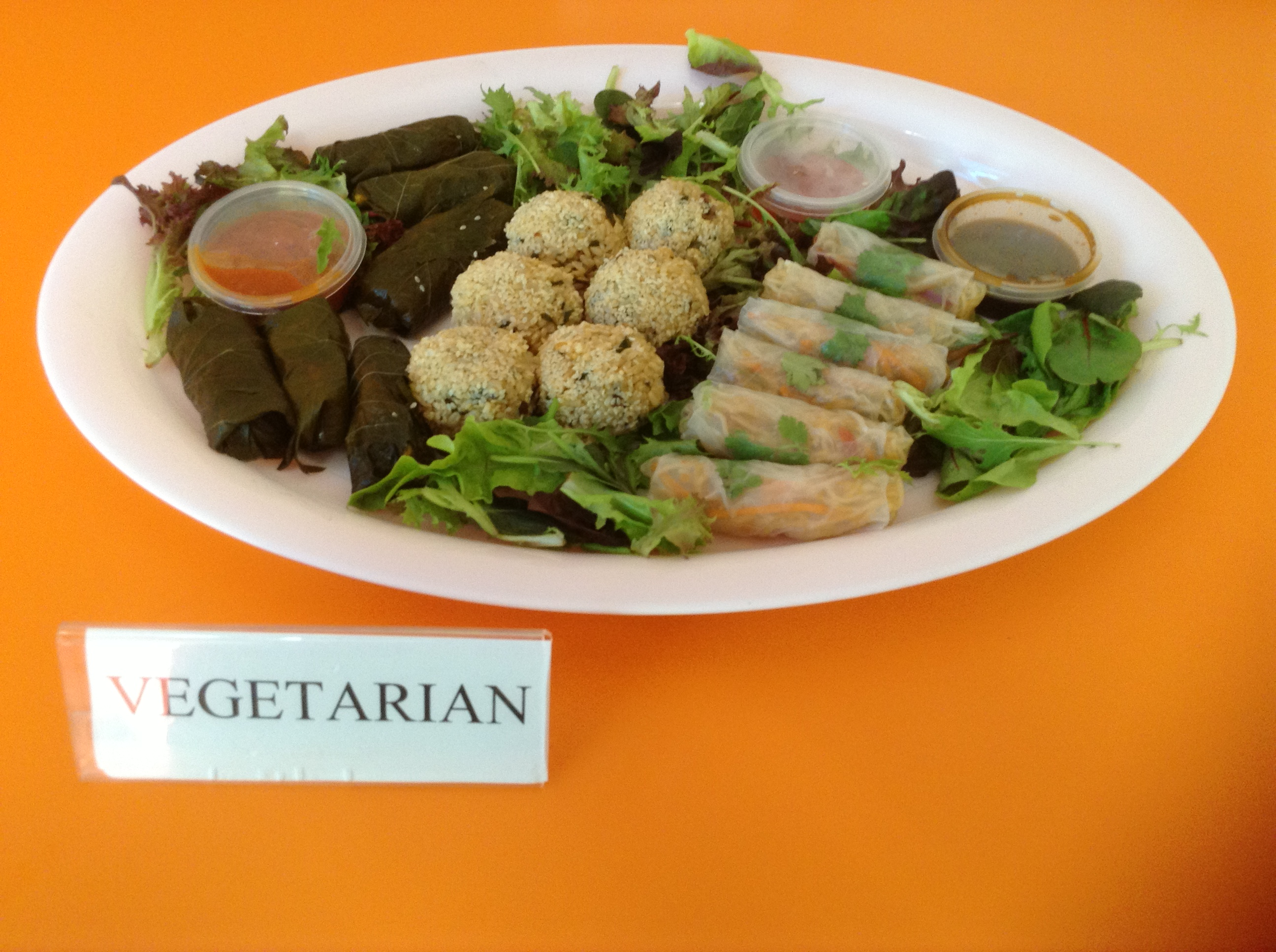 Vegetarian Mediterranean lunch platter